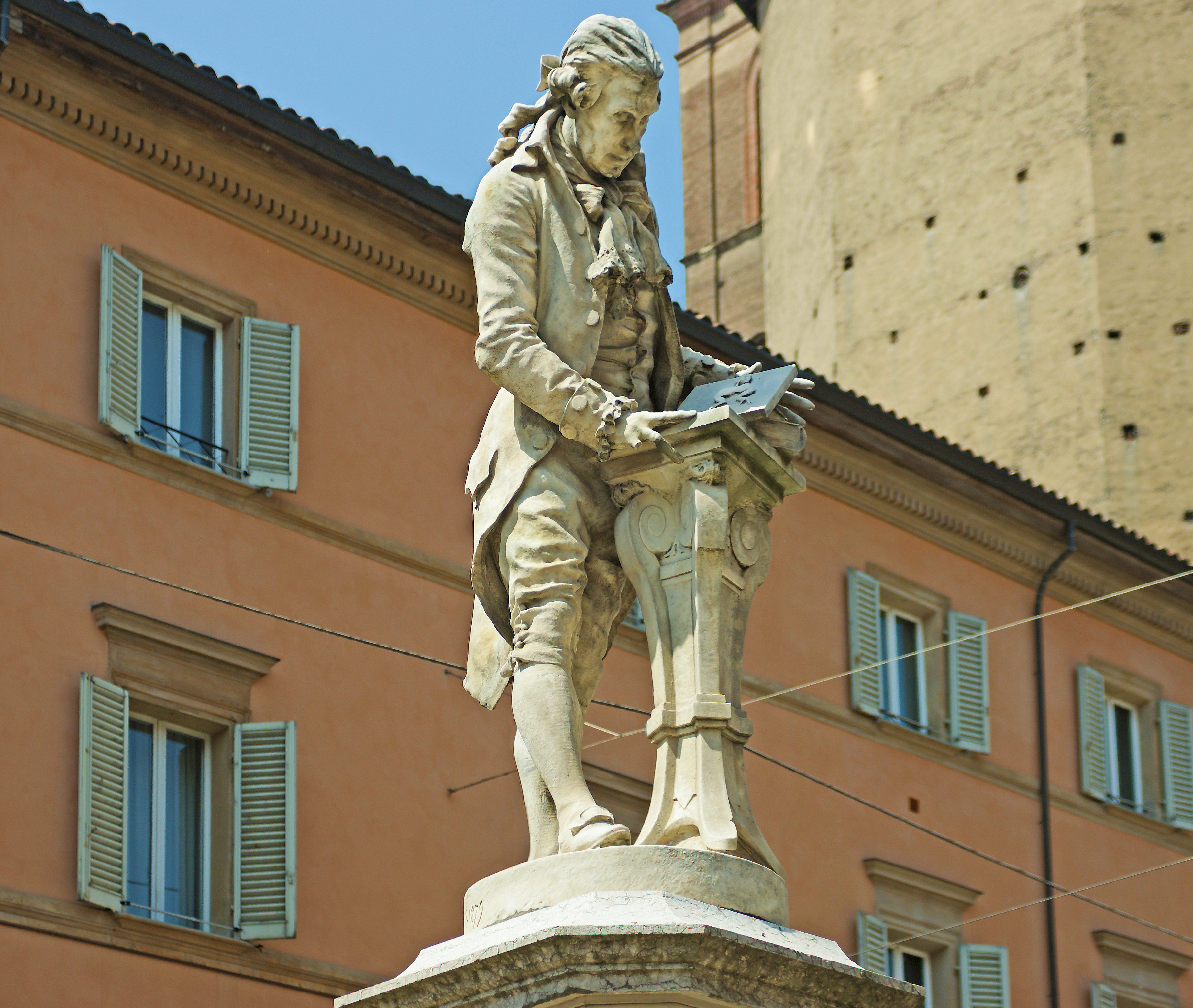 Statue of Luigi Galvani in Piazza Galvani, Bologna.